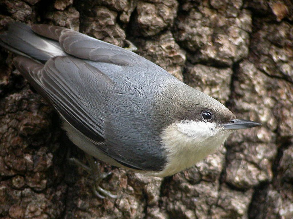 Pygmy Nuthatch (Sitta pygmaea) that perched for several minutes on a tree in a back yard, Mill Valley, California. Photo.